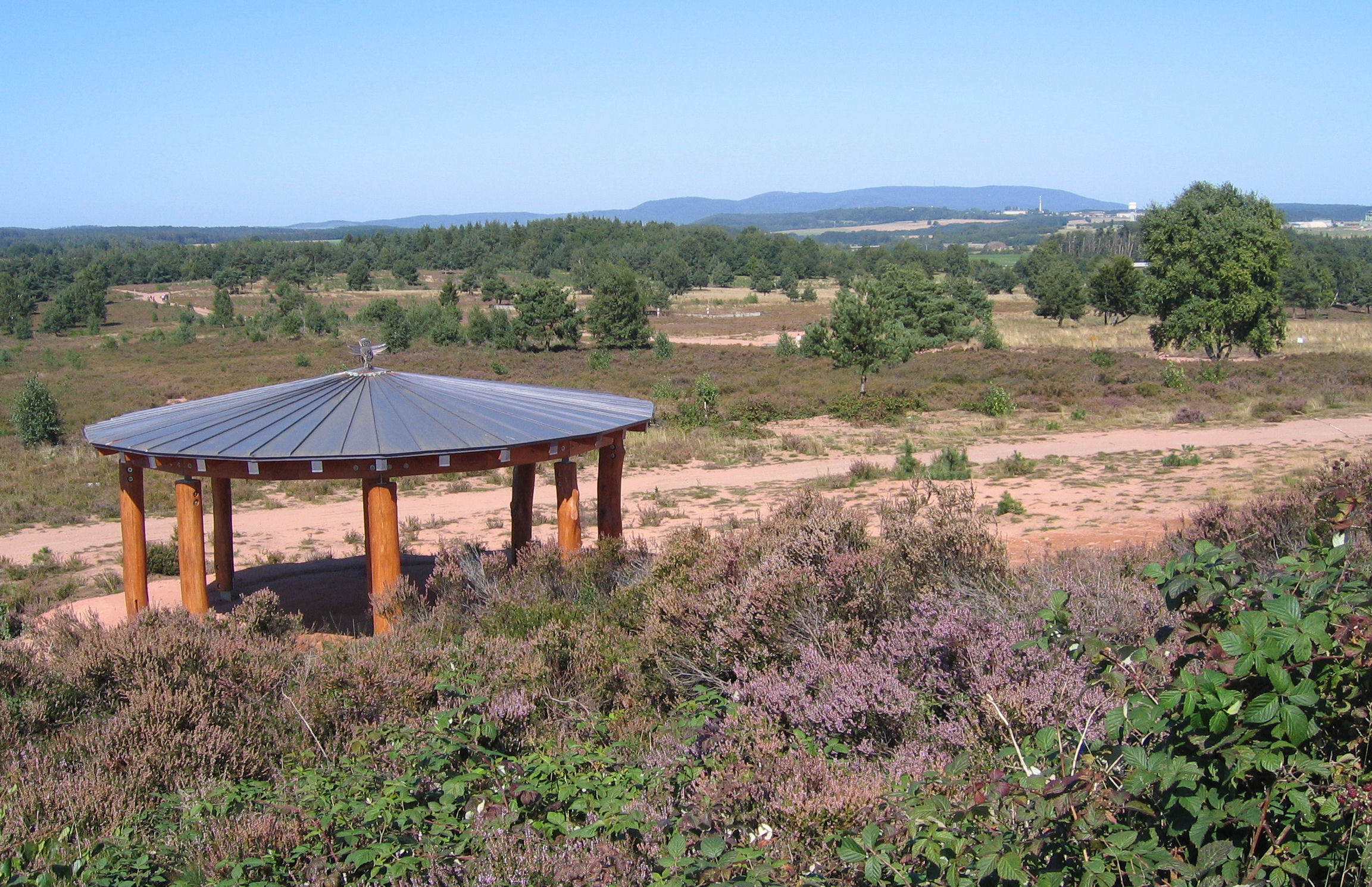 view of Mehlinger Heide, Mehlingen, Germany